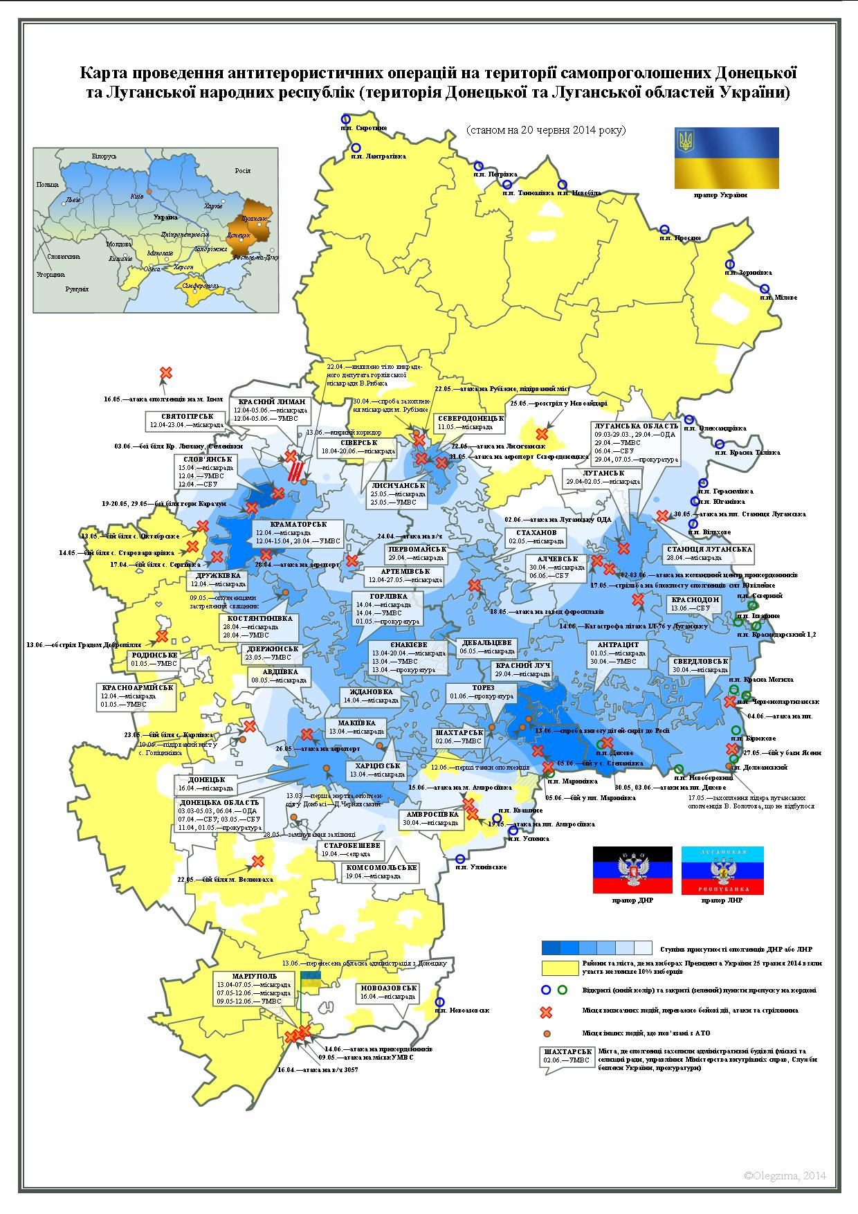 Map antiterrorist operations in the breakaway Donetsk and Lugansk National Republic (Donetsk and Luhansk oblasts of Ukraine)